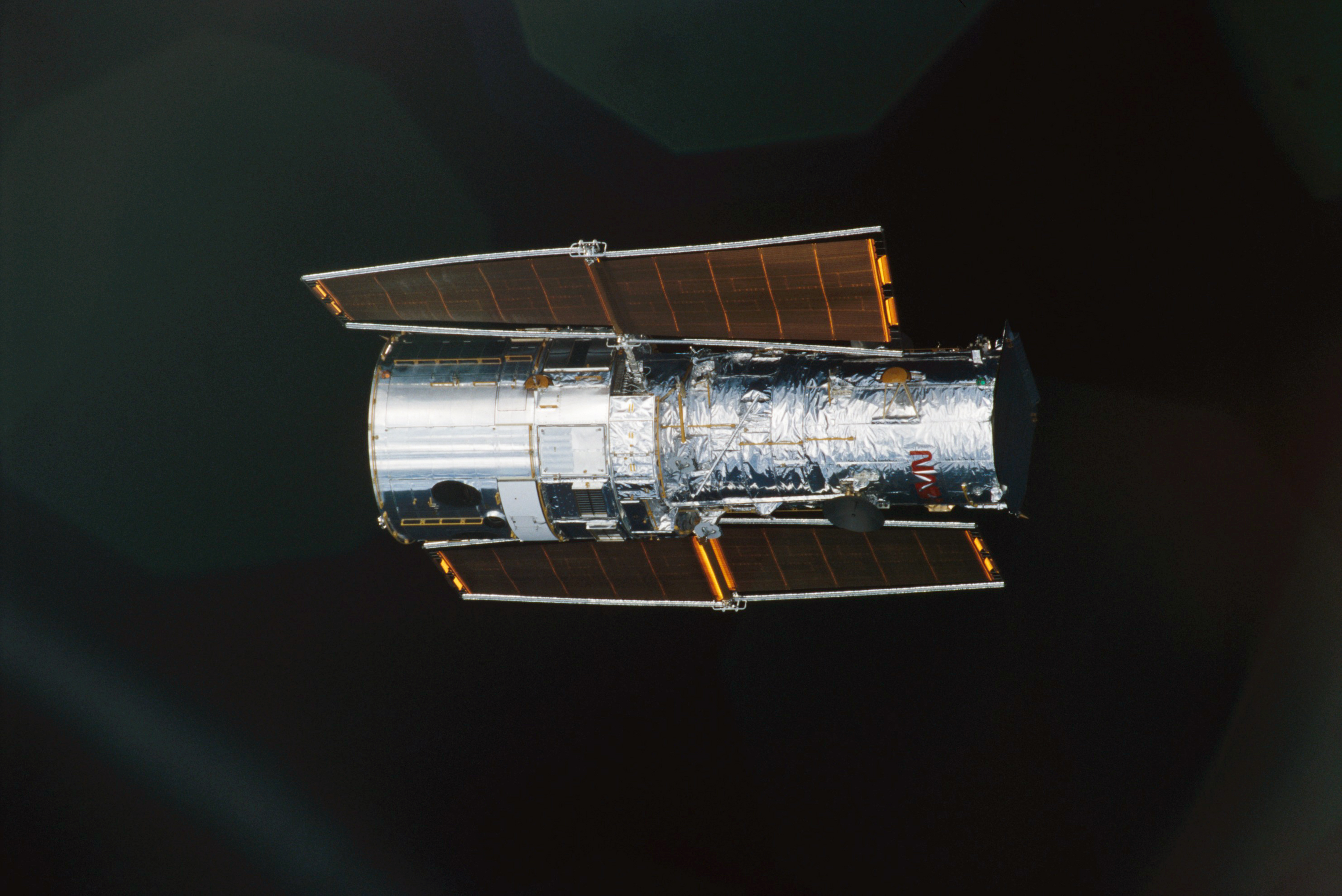 The Hubble Space Telescope (HST), with its normal routine temporarily interrupted, is about to be captured by the Space Shuttle Columbia prior to a week of servicing and upgrading by the STS-109 crew. The telescope was captured by the shuttle's Remote Manipulator System (RMS) robotic arm and secured on a work stand in Columbia's payload bay where 4 of the 7-member crew performed 5 space walks completing system upgrades to the HST. Included in those upgrades were: The replacement of the solar array panels; replacement of the power control unit (PCU); replacement of the Faint Object Camera (FOC) with a new advanced camera for Surveys (ACS); and installation of the experimental cooling system for the Hubble's Near-Infrared Camera and Multi-object Spectrometer (NICMOS), which had been dormant since January 1999 when its original coolant ran out. The Marshall Space Flight Center had the responsibility for the design, development, and construction of the the HST, which is the most complex and sensitive optical telescope ever made, to study the cosmos from a low-Earth orbit. Launched March 1, 2002, the STS-109 HST servicing mission lasted 10 days, 22 hours, and 11 minutes. It was the 108th flight overall in NASA's Space Shuttle Program.